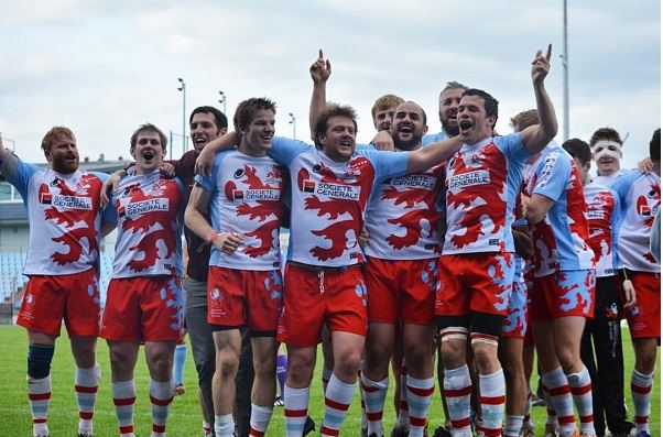 FLR new kit